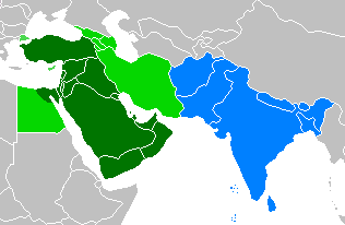 Middle East: Common and Royal Spanish Academy definitions.